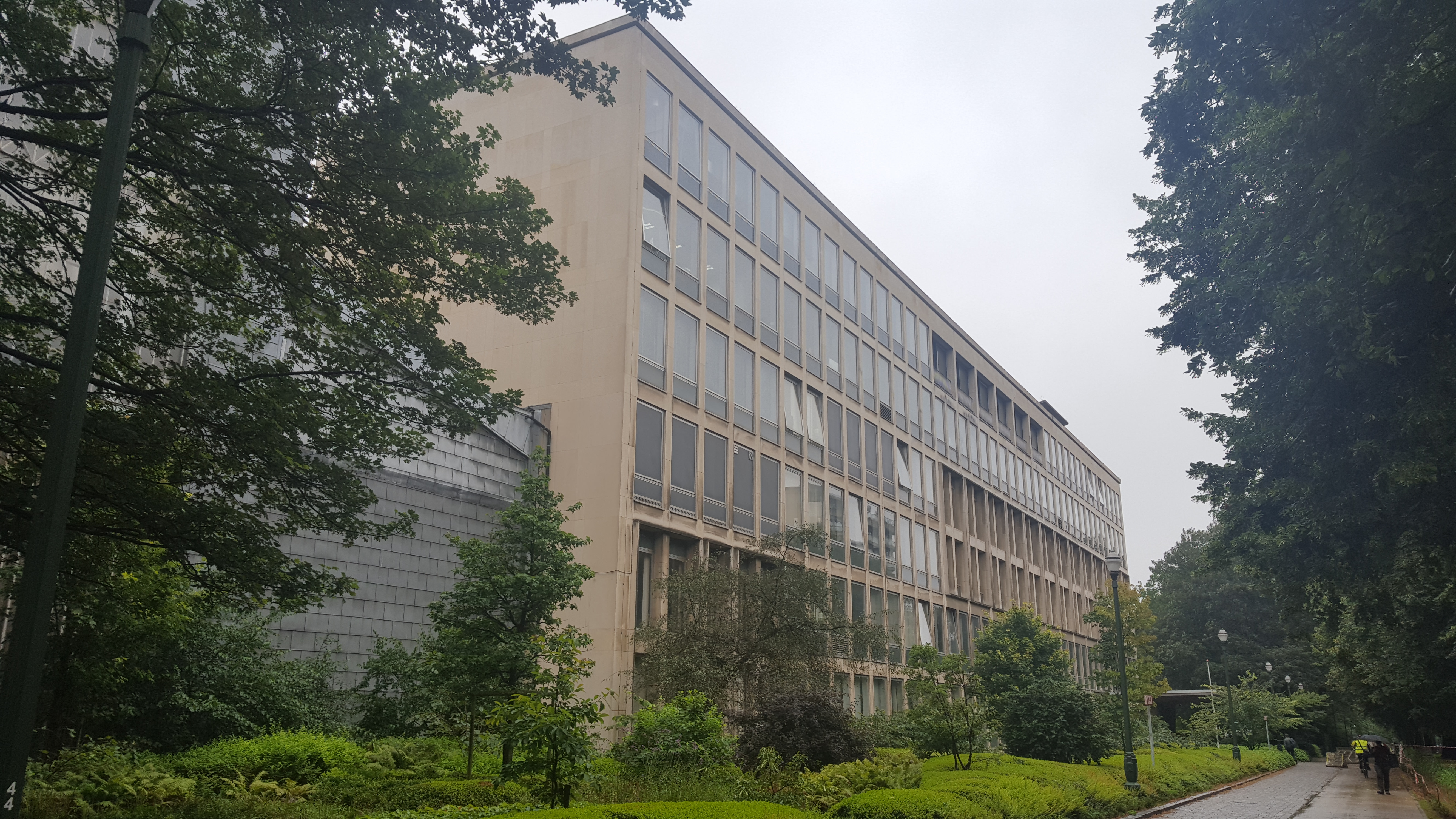 building of KIK-IRPA in Brussels, Belgium